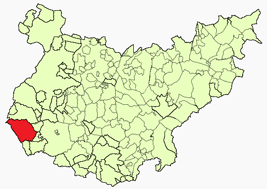 Villanueva del Fresno